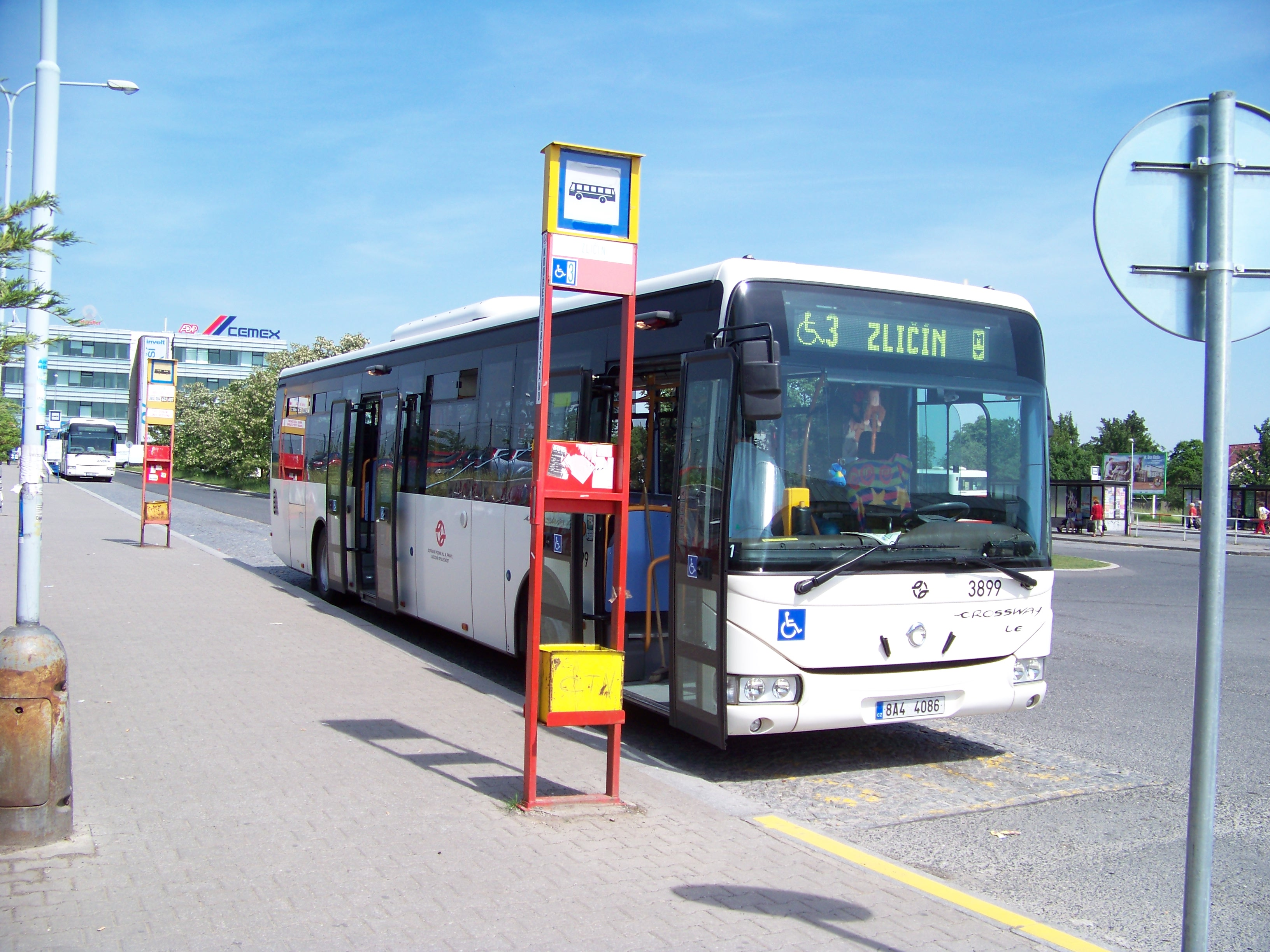 Třebonice, Prague, the Czech Republic. Praha-Zličín bus terminal.